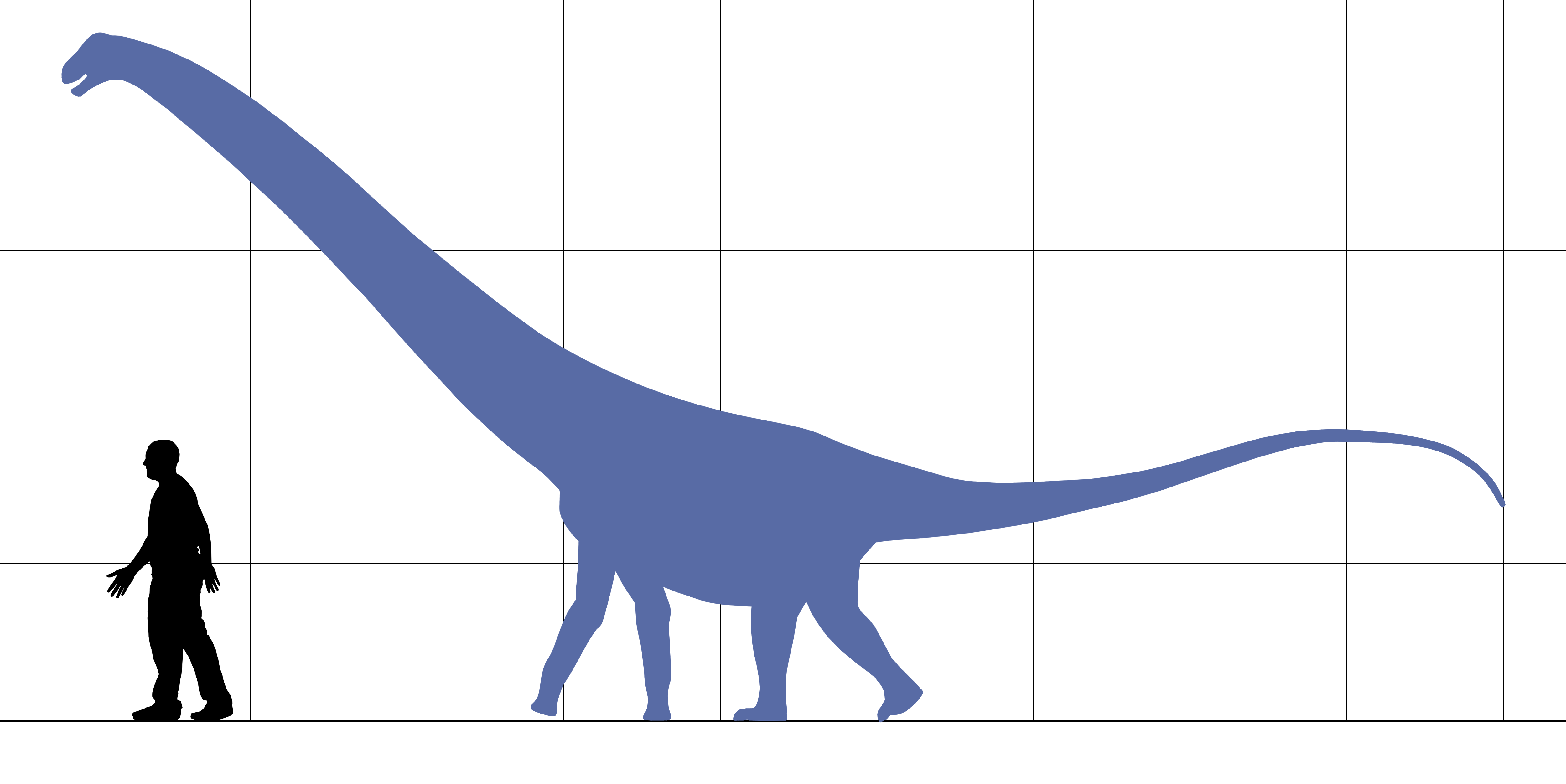 Scale diagram of Hypselosaurus priscus with a human ( by Andy Farke)